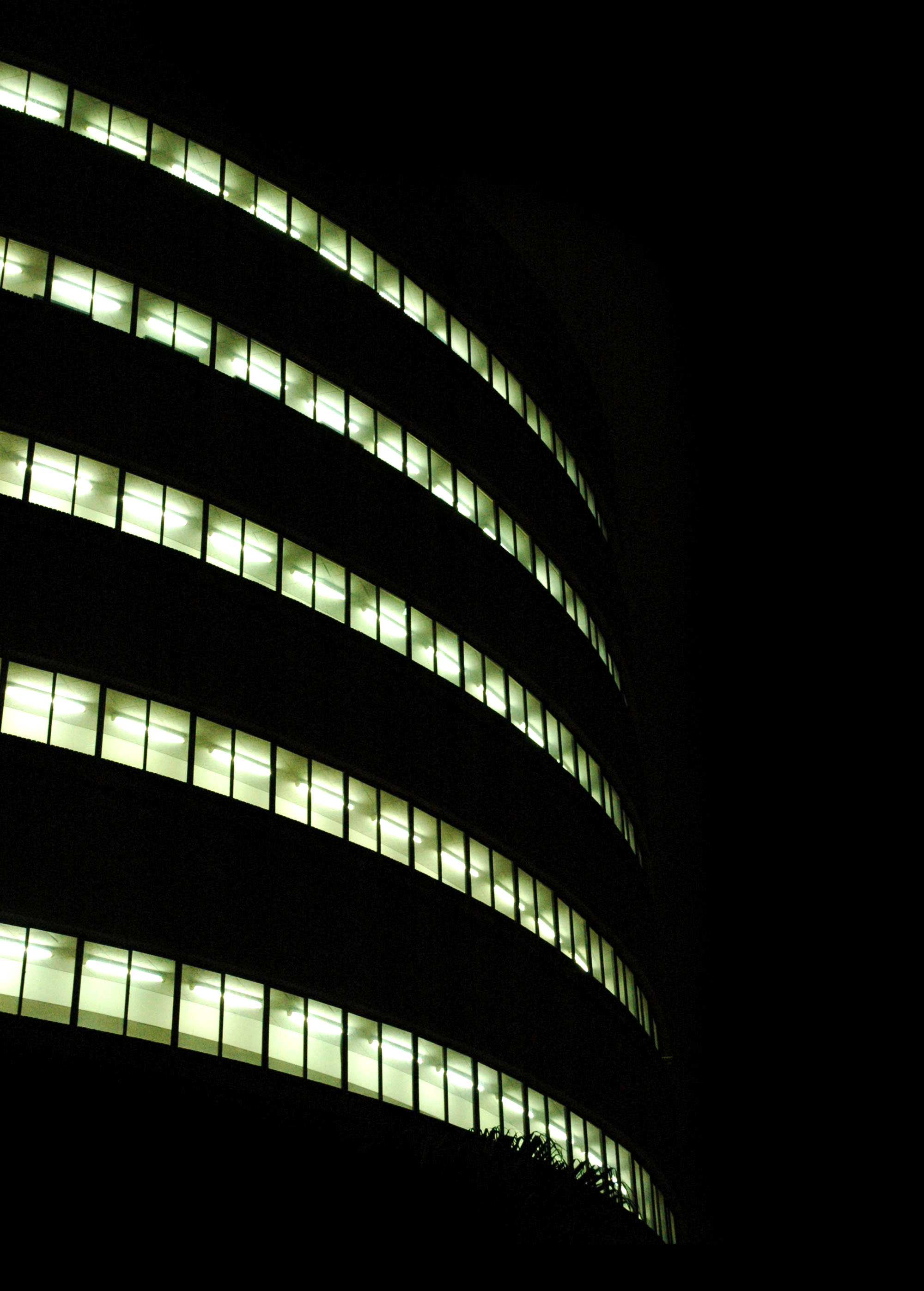 National Taiwan Normal University, Main Library. (Photo: Alton Thompson)